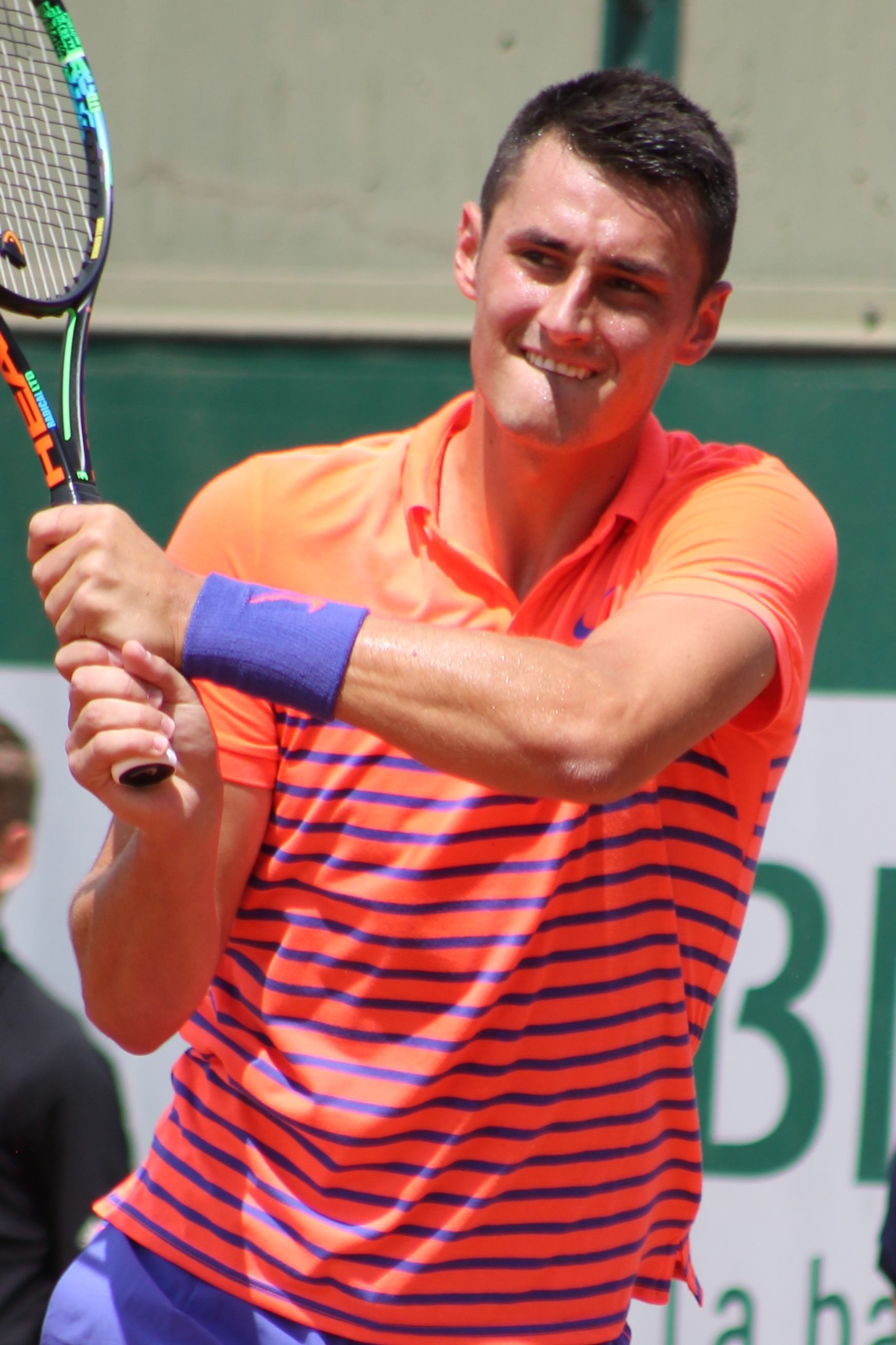 Tomic RG15 (9)